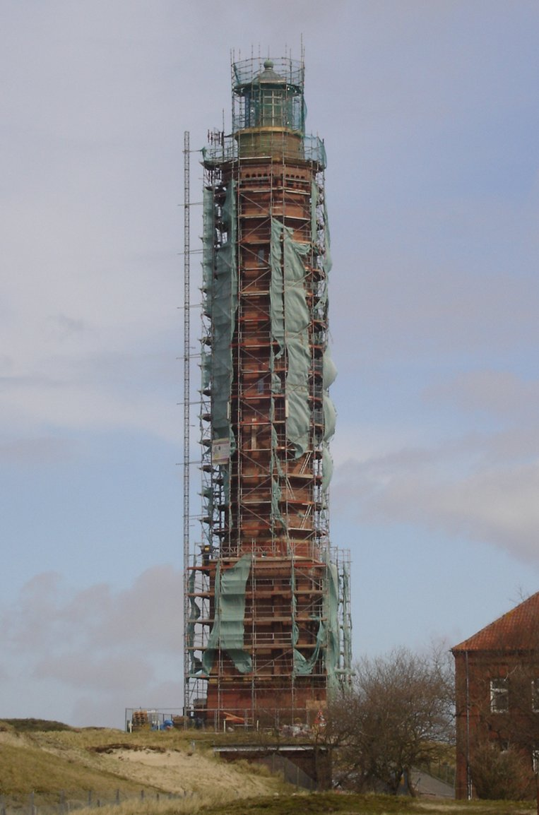 Lighthouse of Norderney with scaffolding